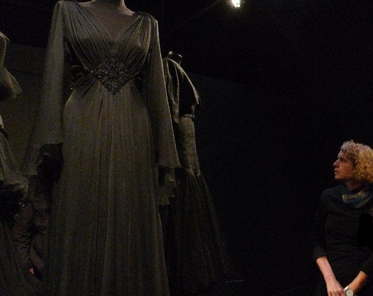 Pedro Rodriguez exhibition at DHUB Barcelona